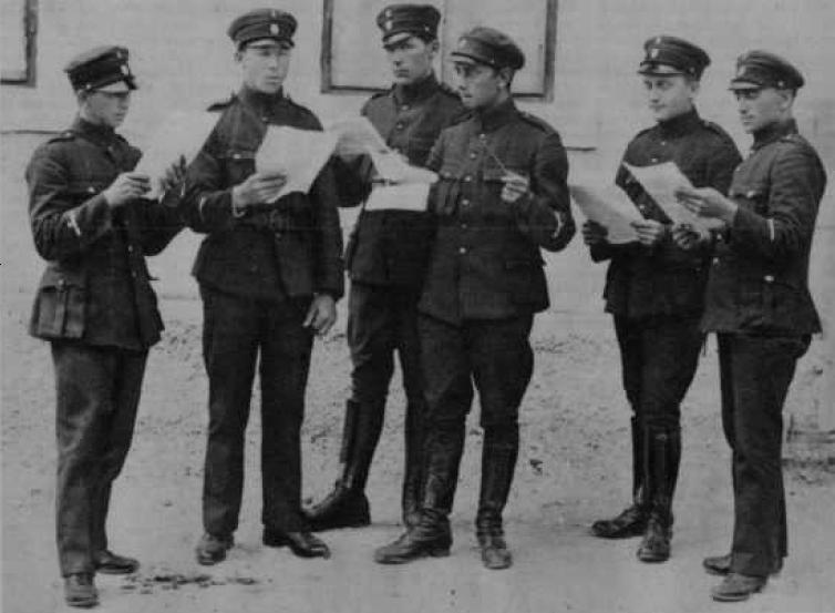 "Chorus of Financial Control." Slovenski gospodar year 61, no. 40 (01.10.1927). Financial control was Customs, Excise and Monopoly Service in the time of Kingdom of Serbs, Croats and Slovenes. Photo was taken in Mojstrana, in the territory of present day Slovenia.